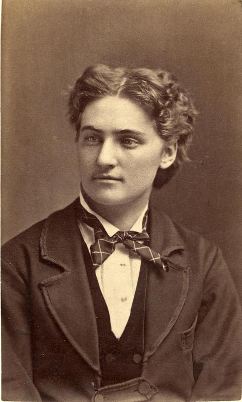 Author and feminist Olive Anderson (1852-1886)